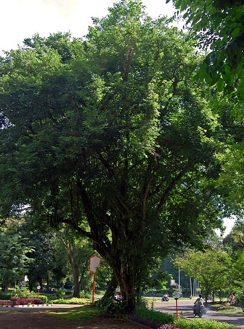 Dalbergia latifolia tree. Bogor, West Java, Indonesia.